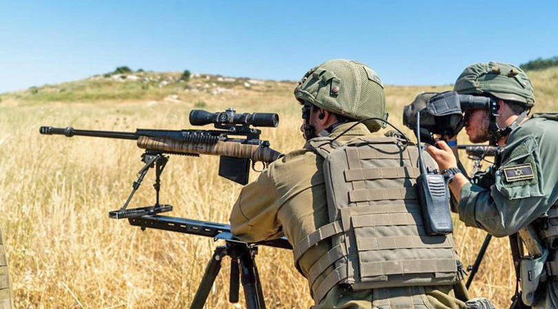 Israel Defense Forces snipers with the "Barak" (H-S Precision Pro Series 2000) sniper weapon system, during IDF sniping competition.